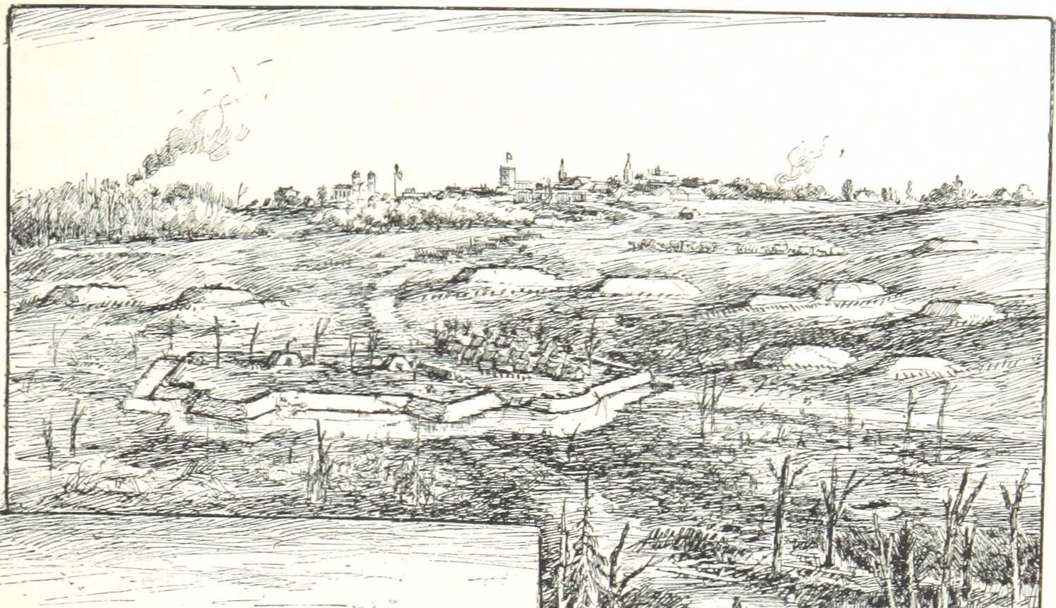 The Confederate Fort Magruder, attacked during the Battle of Williamsburg. Original caption: Fort Magruder and other Confederate earth-works in front of Williamsburg. From sketches made May 6, 1862.